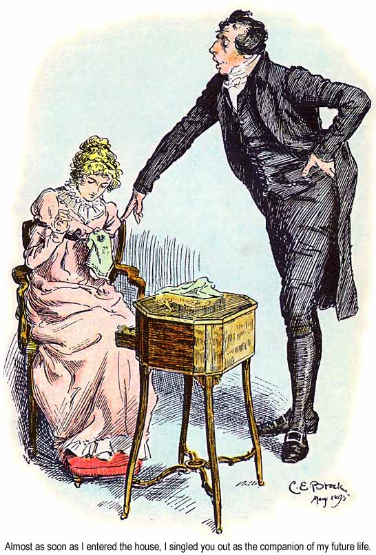 C. E. Brock illustration for the 1895 edition of Jane Austen's novel Pride and Prejudice (Chapter 19) Mr Collins'proposal